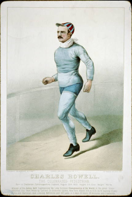 Charles Rowell: The celebrated pedestrian, lithograph, hand col., Currier & Ives, 1879. Charles Rowell was a winner of six-day race at Madison Square Garden, March 10-15, 1879 becoming a world champion. (Old Time Walk and Run)